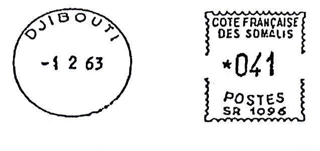 Meter stamp catalog image, Djibouti type A4